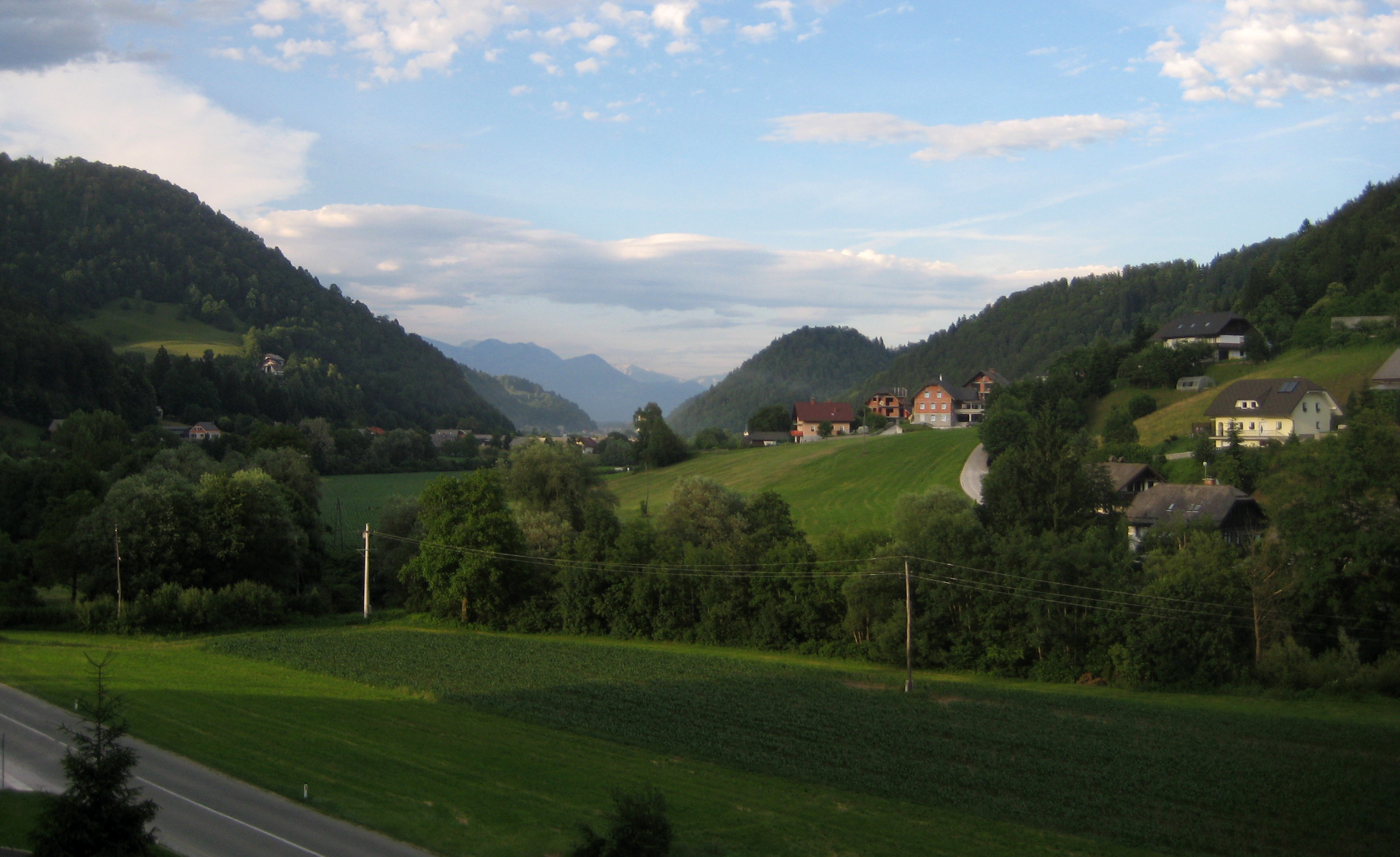 Poljanska dolina, valley in Slovenia